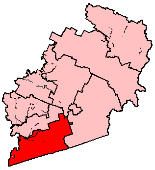 Summary: Map showing Brome-Missisquoi